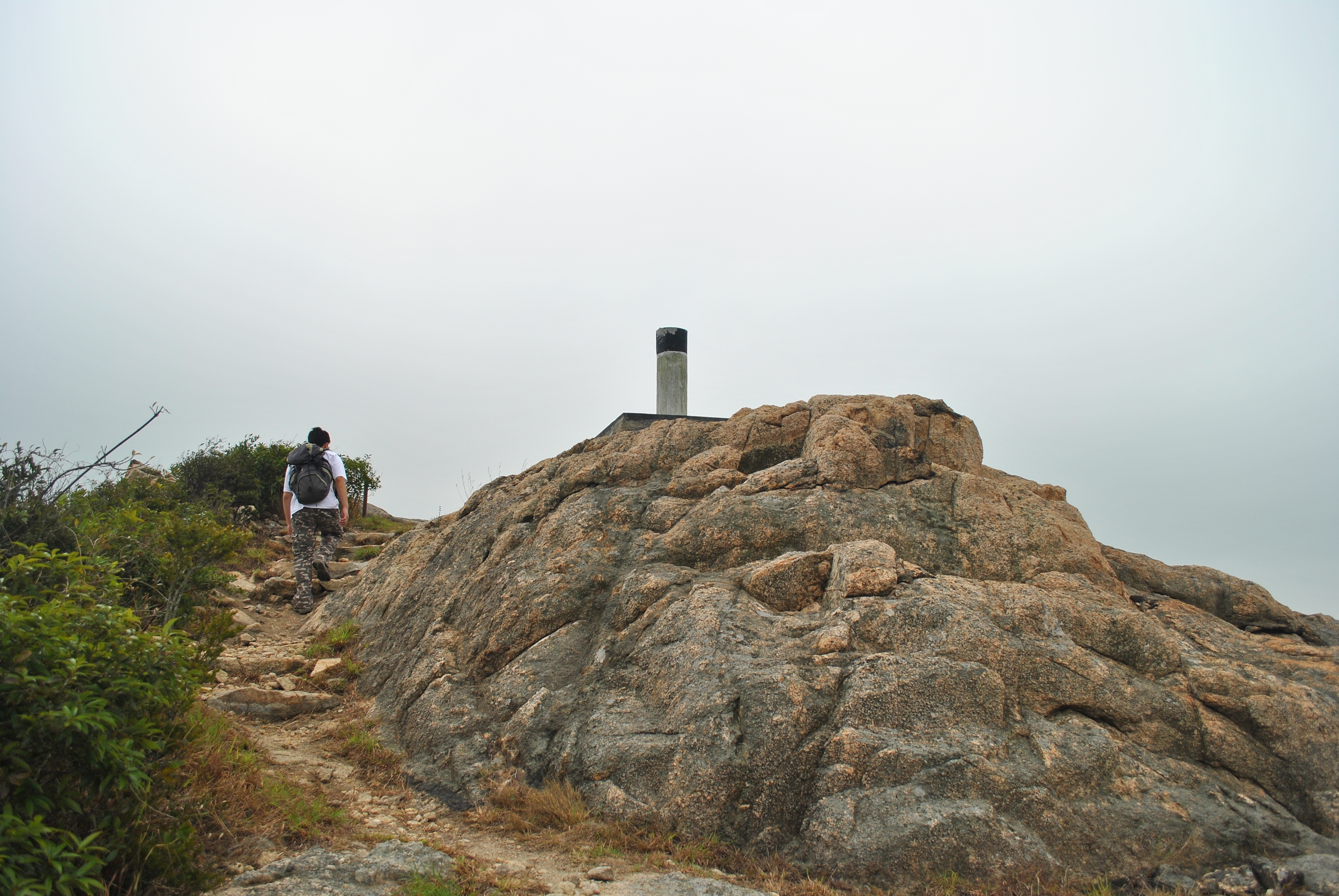 Lo Yan Shan